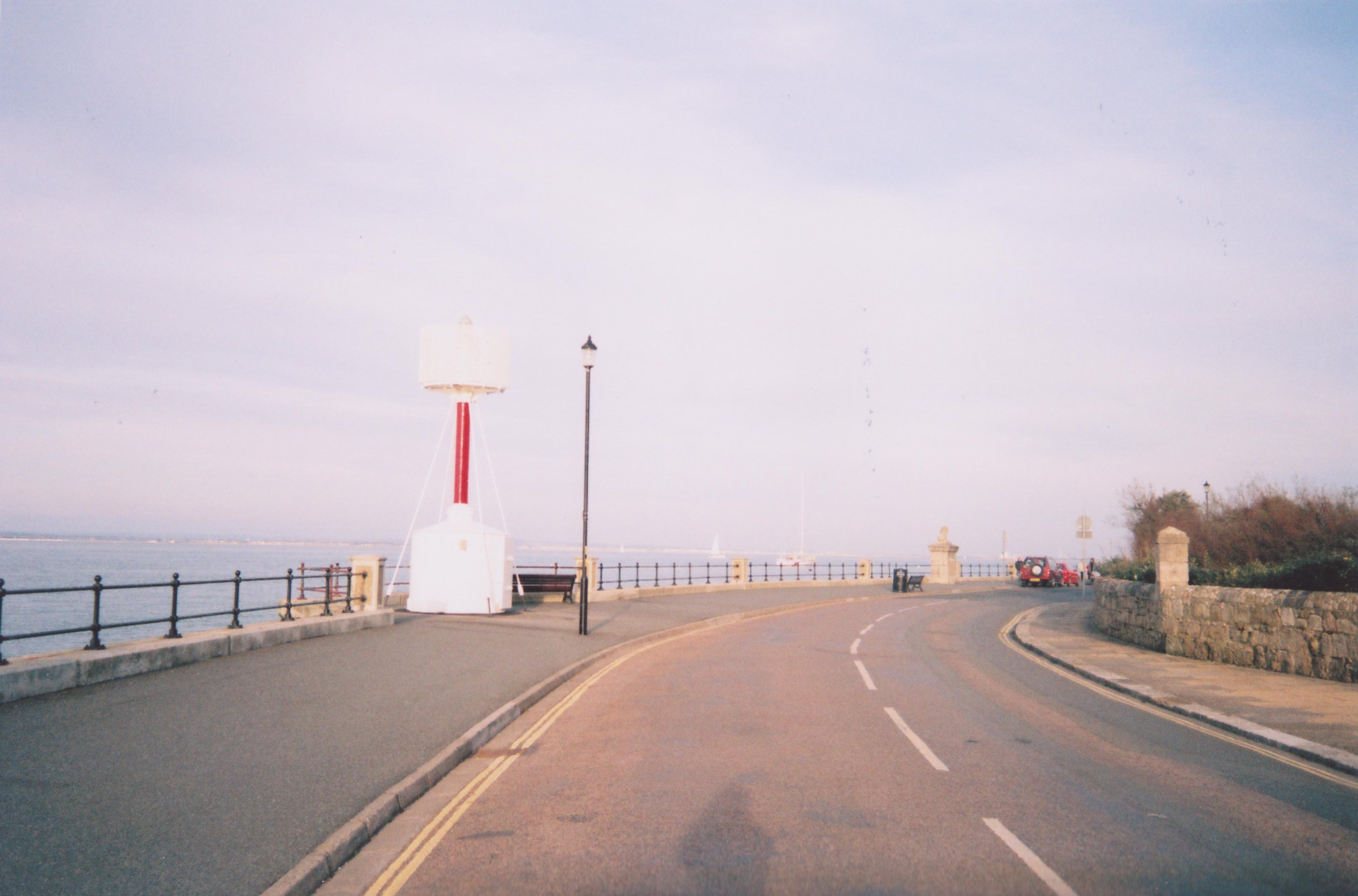 Egypt Point, Cowes, Isle of Wight, showing the lighthouse at the northernmost point of the island.